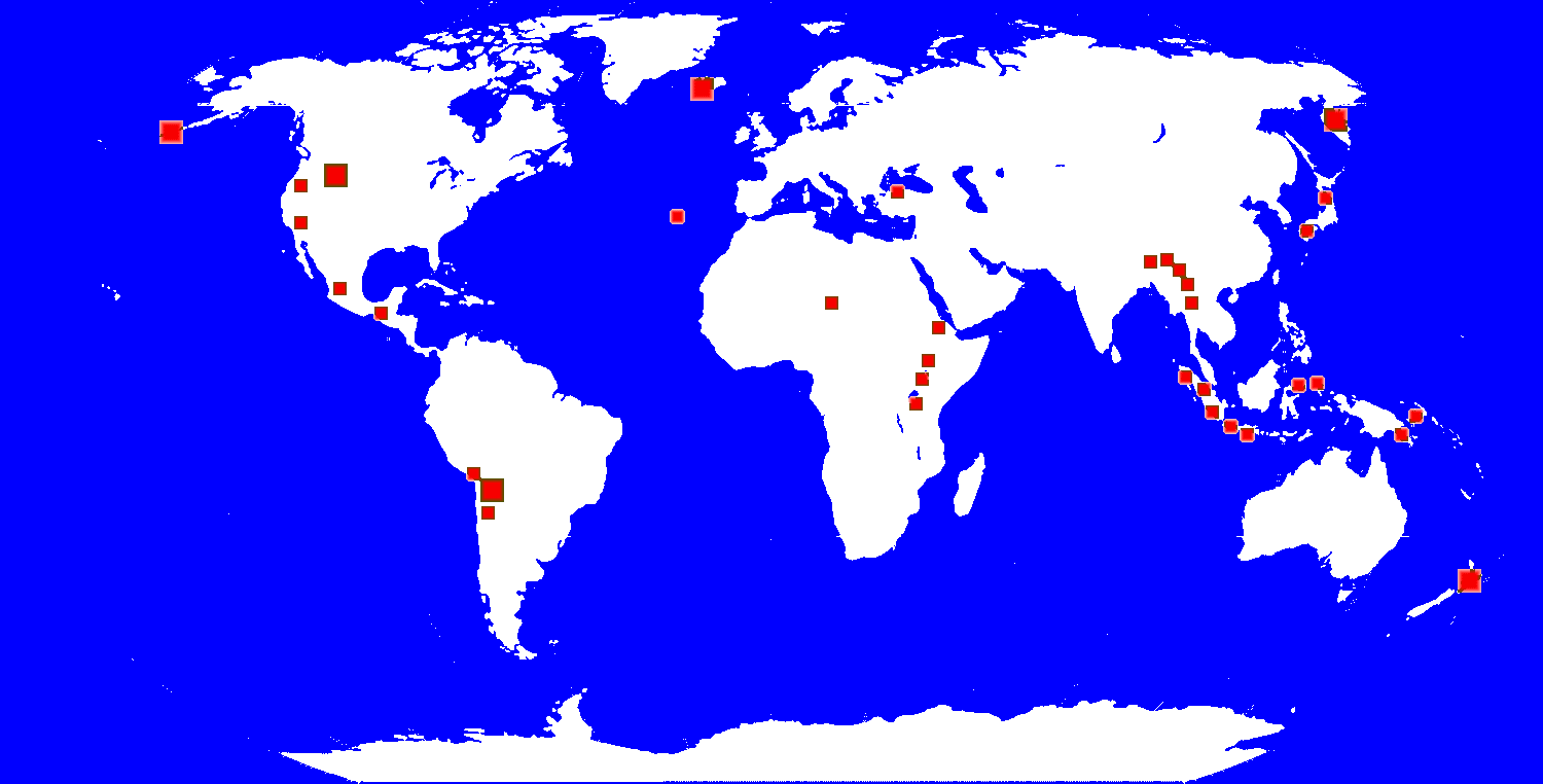 Created by User:Worldtraveller from public domain world map.